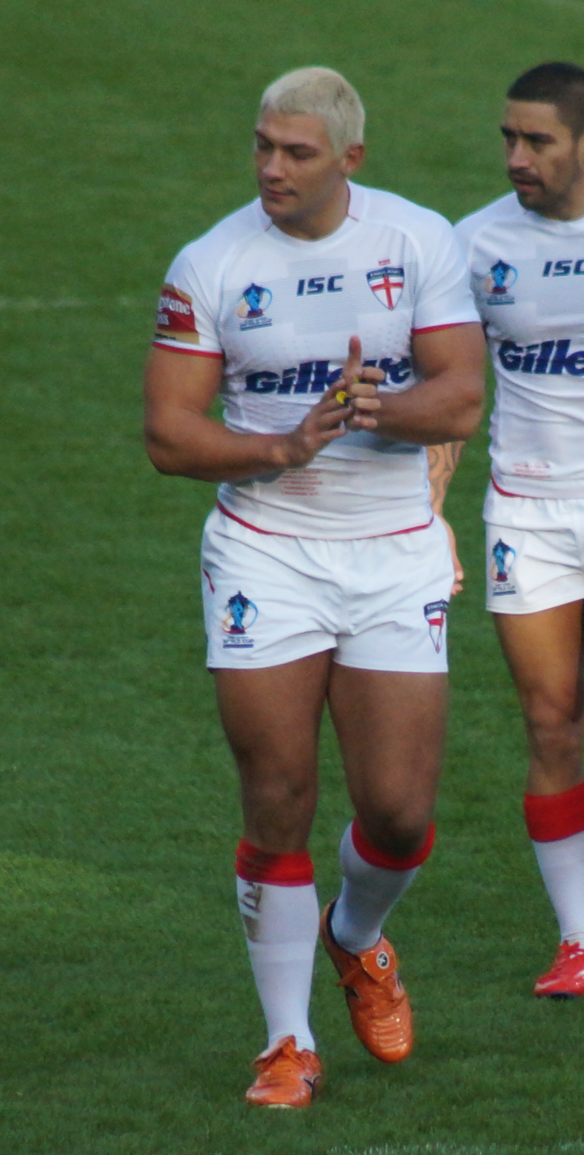 English players Ryan Hall and Rangi Chase 2013 Rugby League World Cup match between England and Ireland at John Smith's Stadium, Huddersfield.